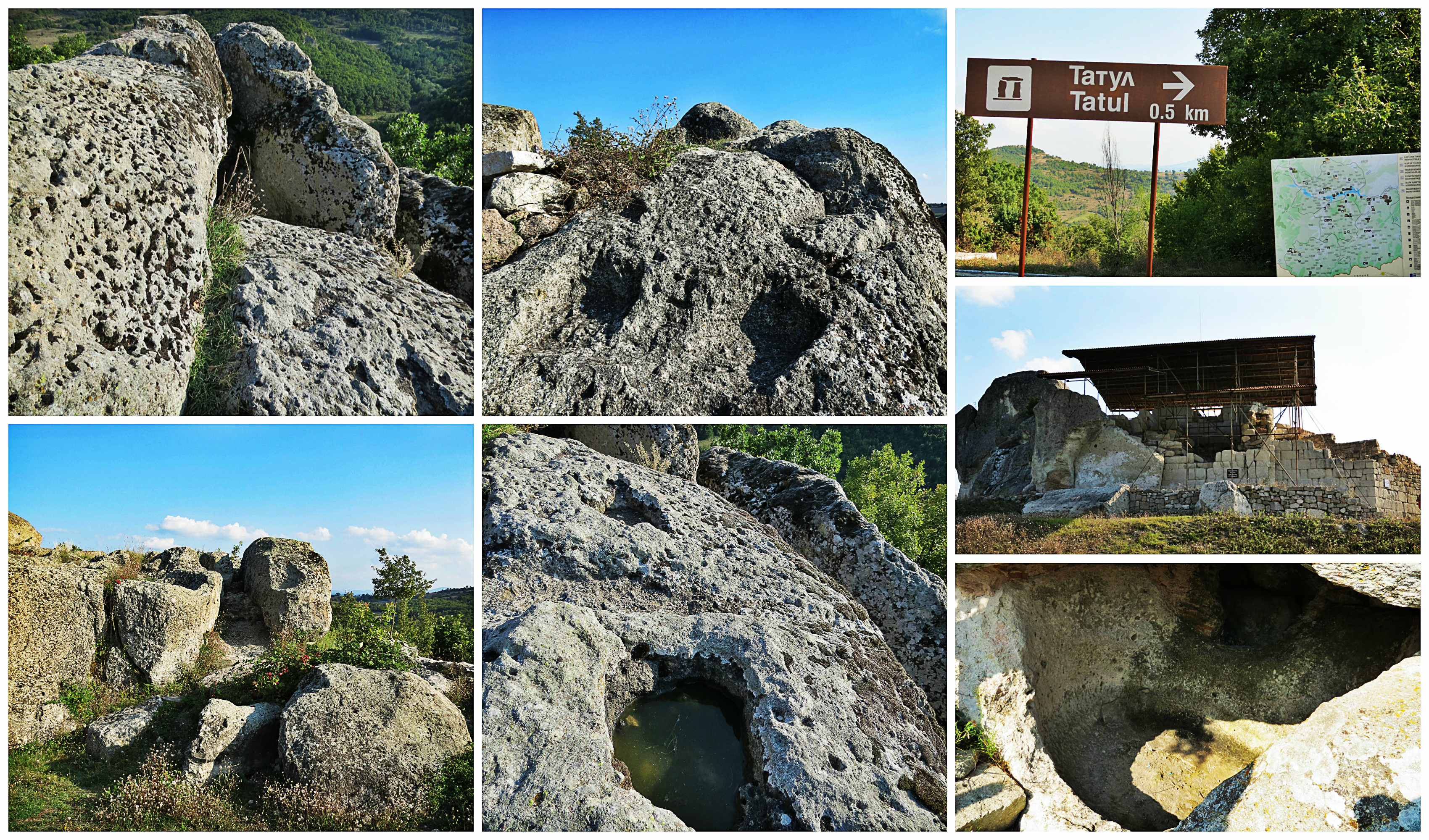 Tatul sanctuary 3 Bulgaria